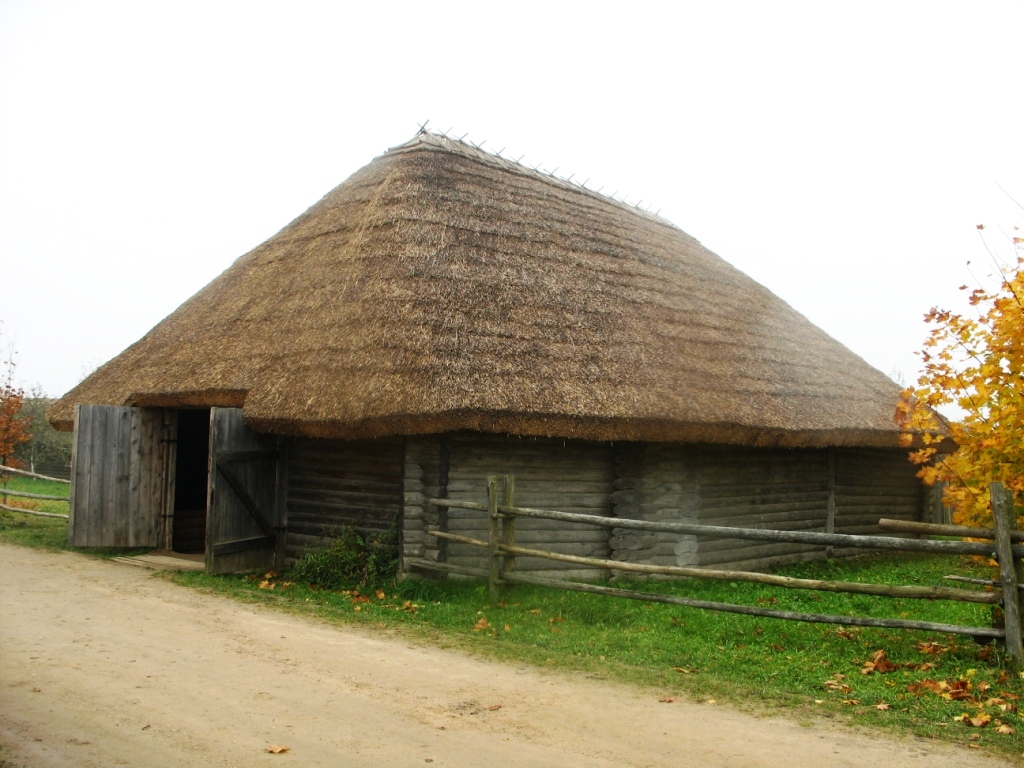 Traditionel architektur of Belarus